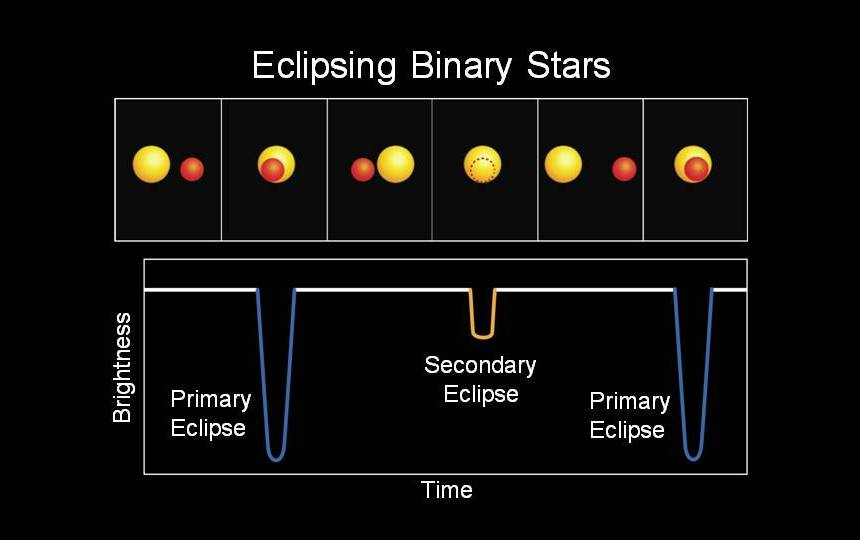 When the smaller star partially blocks the larger star, a primary eclipse occurs, and a secondary eclipse occurs when the smaller star is occulted, or completely blocked, by the larger star.